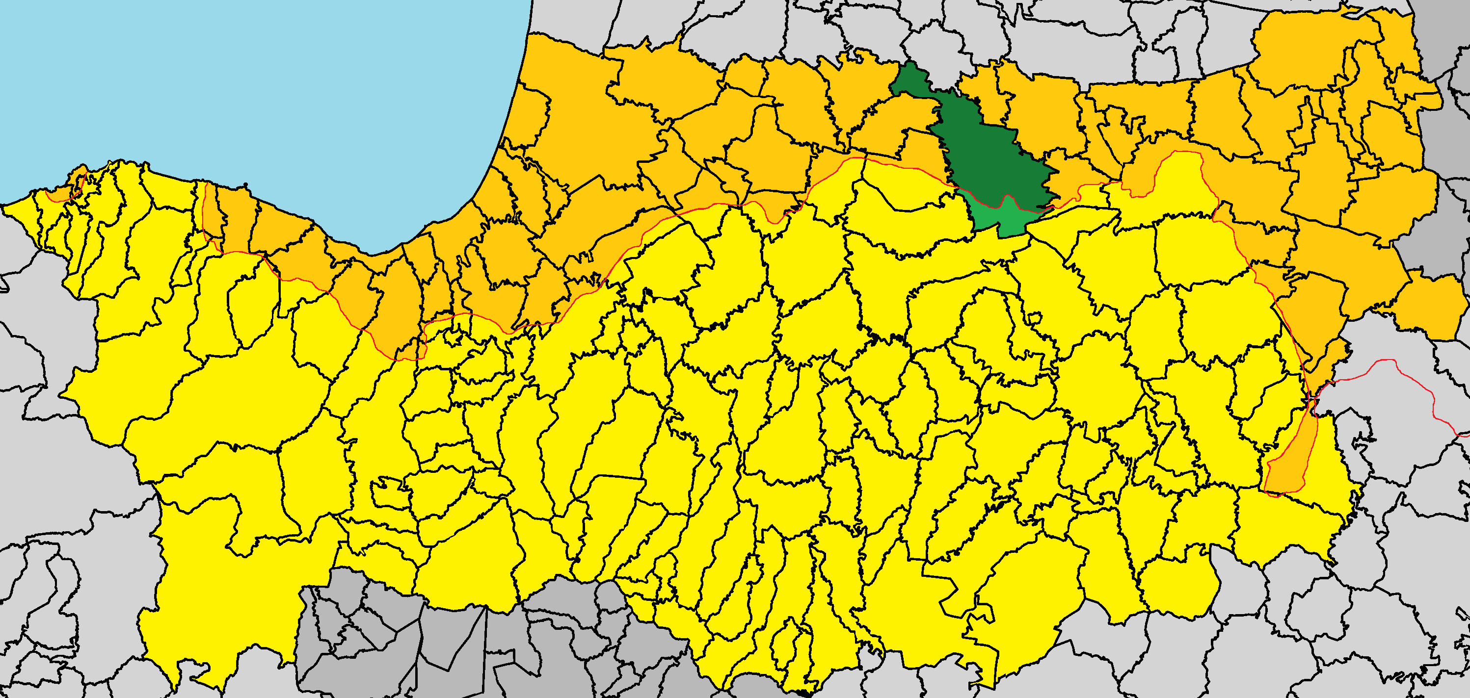 Gerolakkos in Nicosia District (de jure).